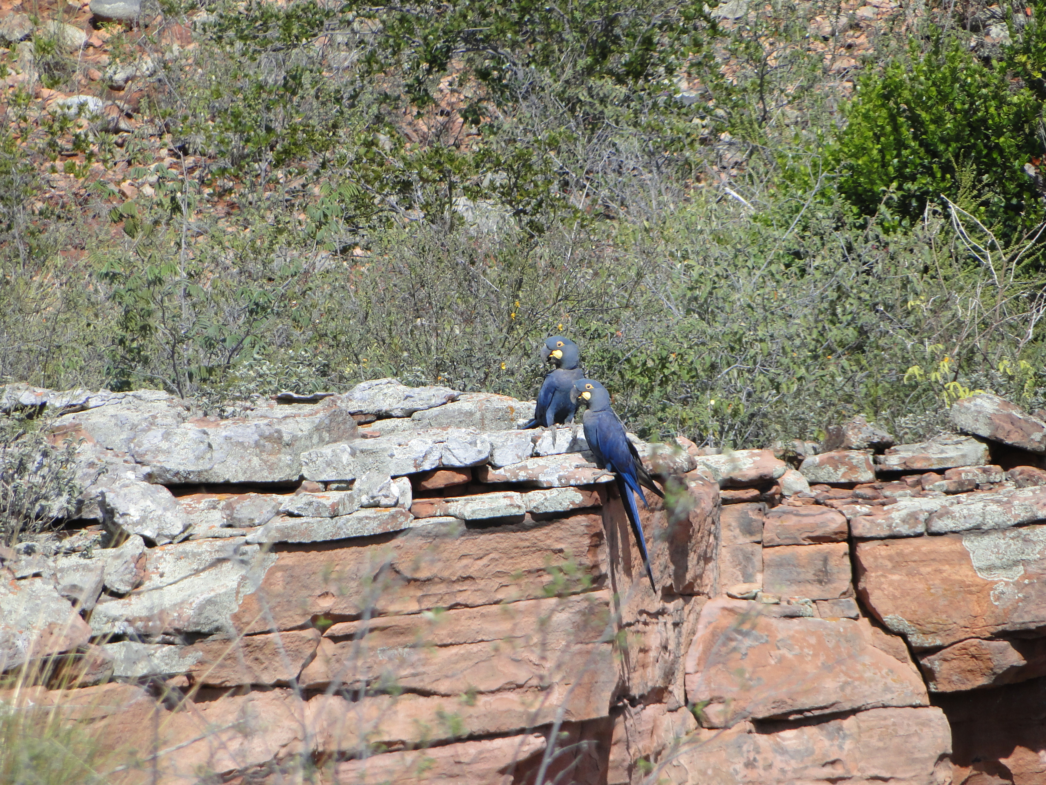 Two Lear's Macaws at Estação Biológica de Canudos, Bahia, Brazil.